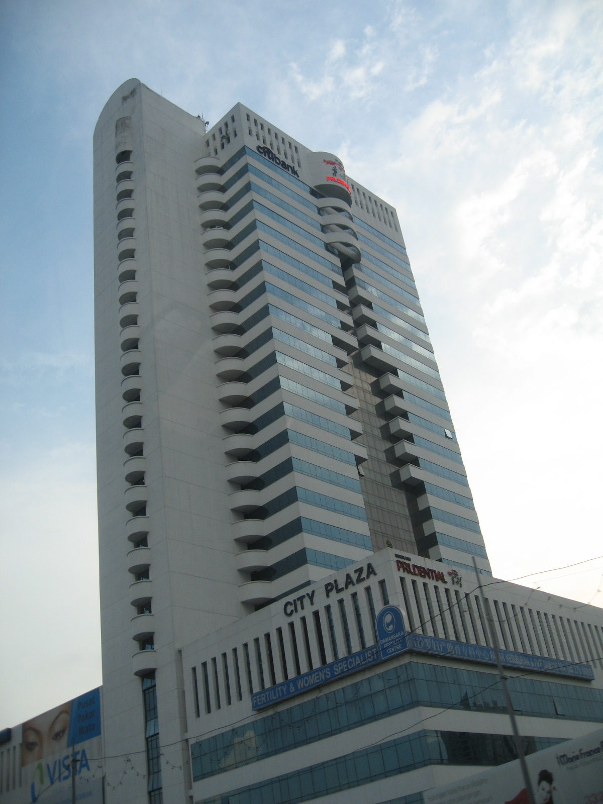 City Plaza, Johor Bahru.